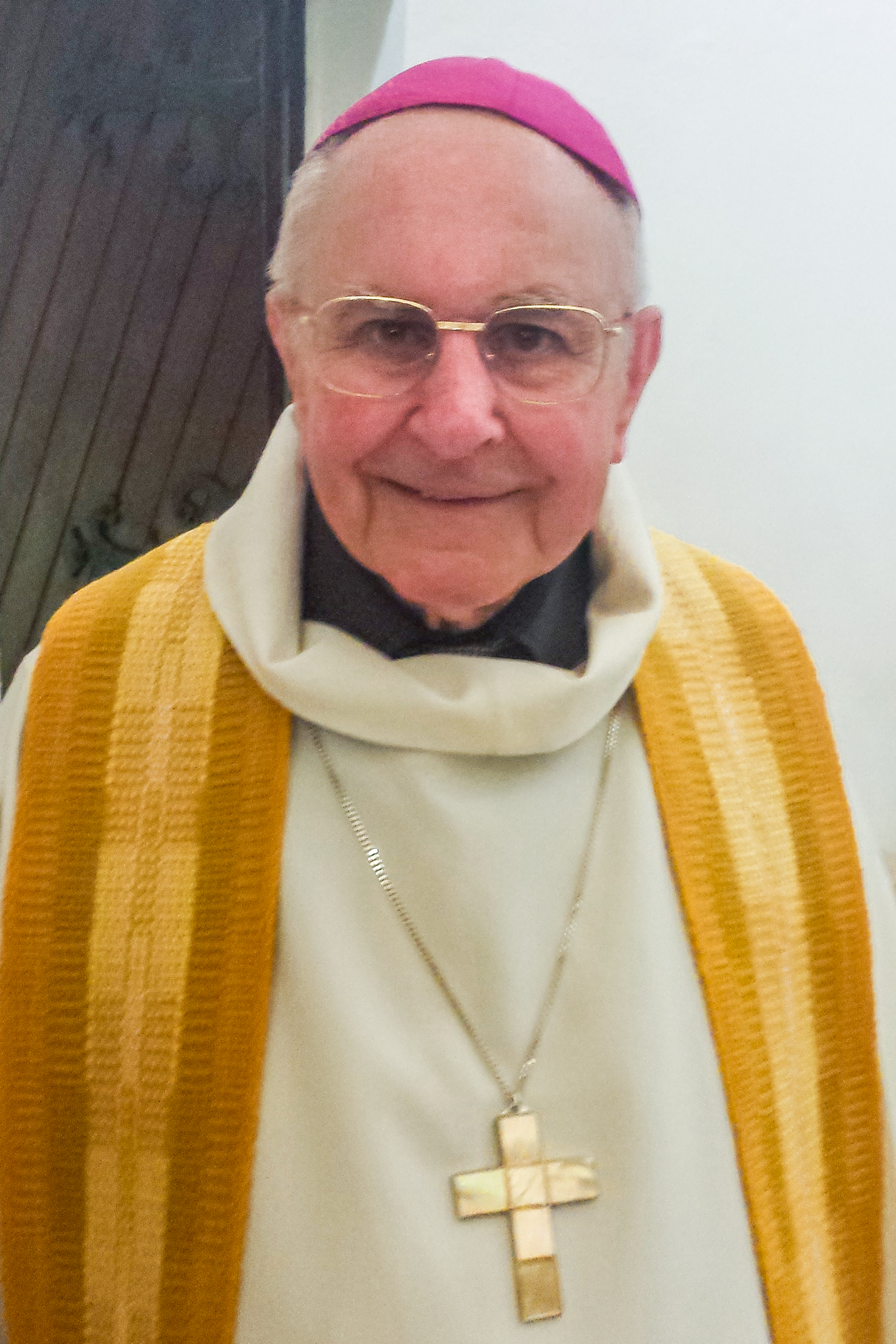 Bishop Orchampt during a wedding ceremony at the Mauguio's church.